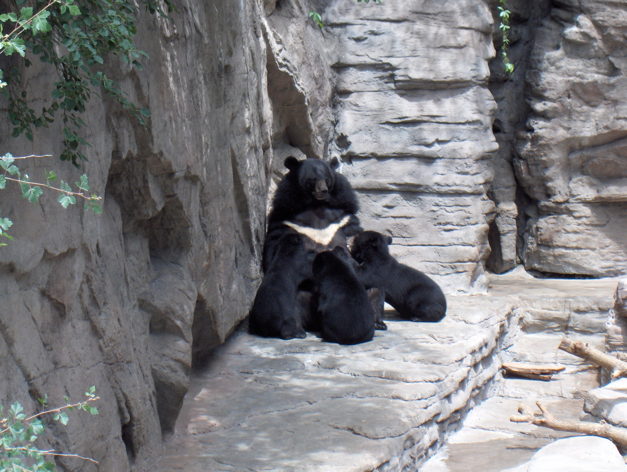 Asiatic Black Bear with young at Denver Zoo